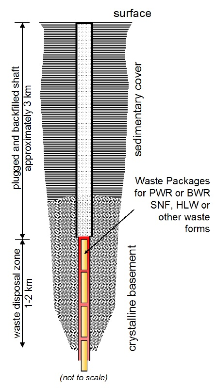 schemata of boreholde disposal concept